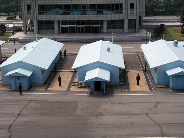 Panmunjeom, view from the North Korean Panmun Guk ("Hall of Unification") to the south side. Own photo taken in August 2005.